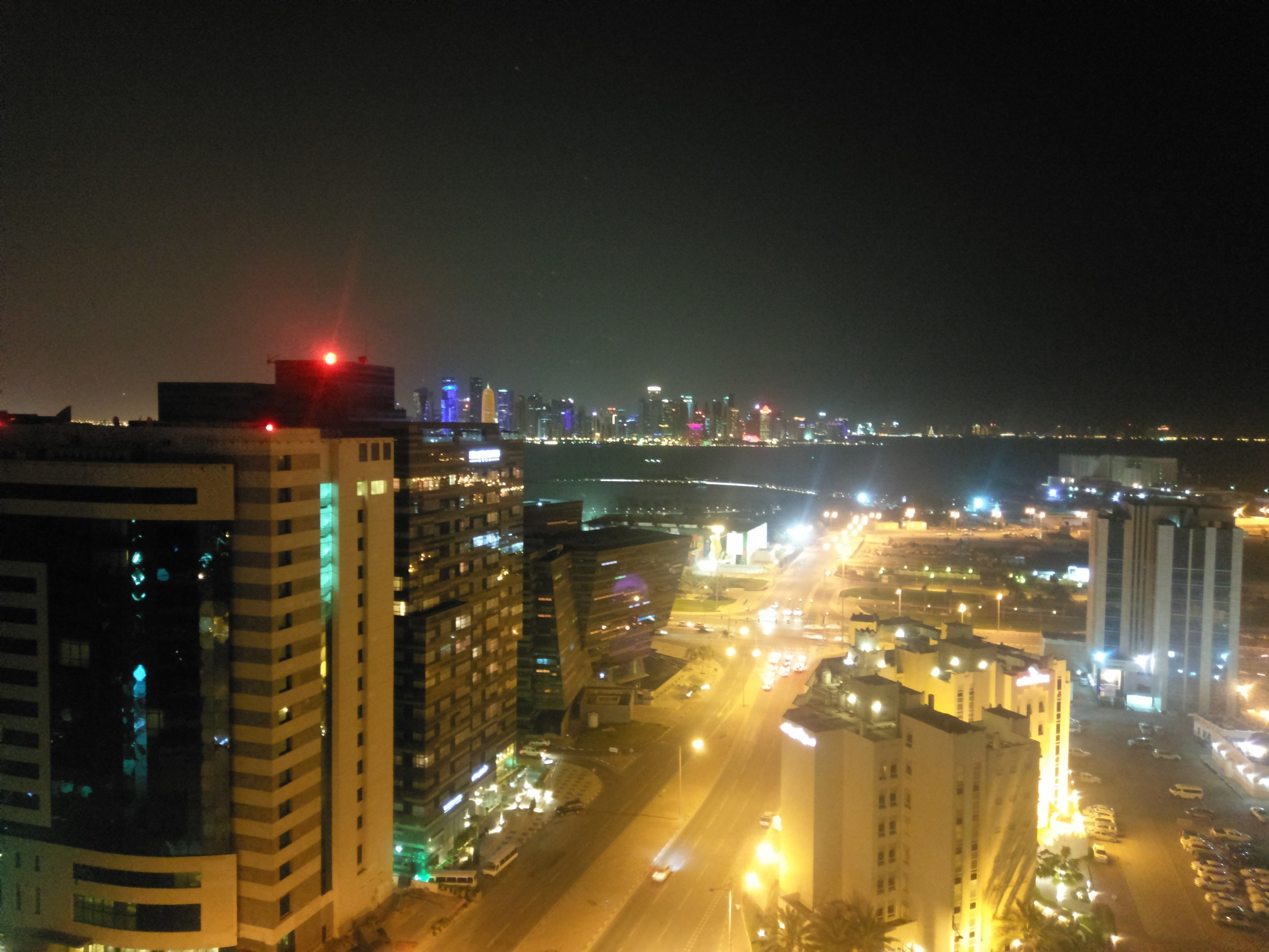 Doha Corniche view at night